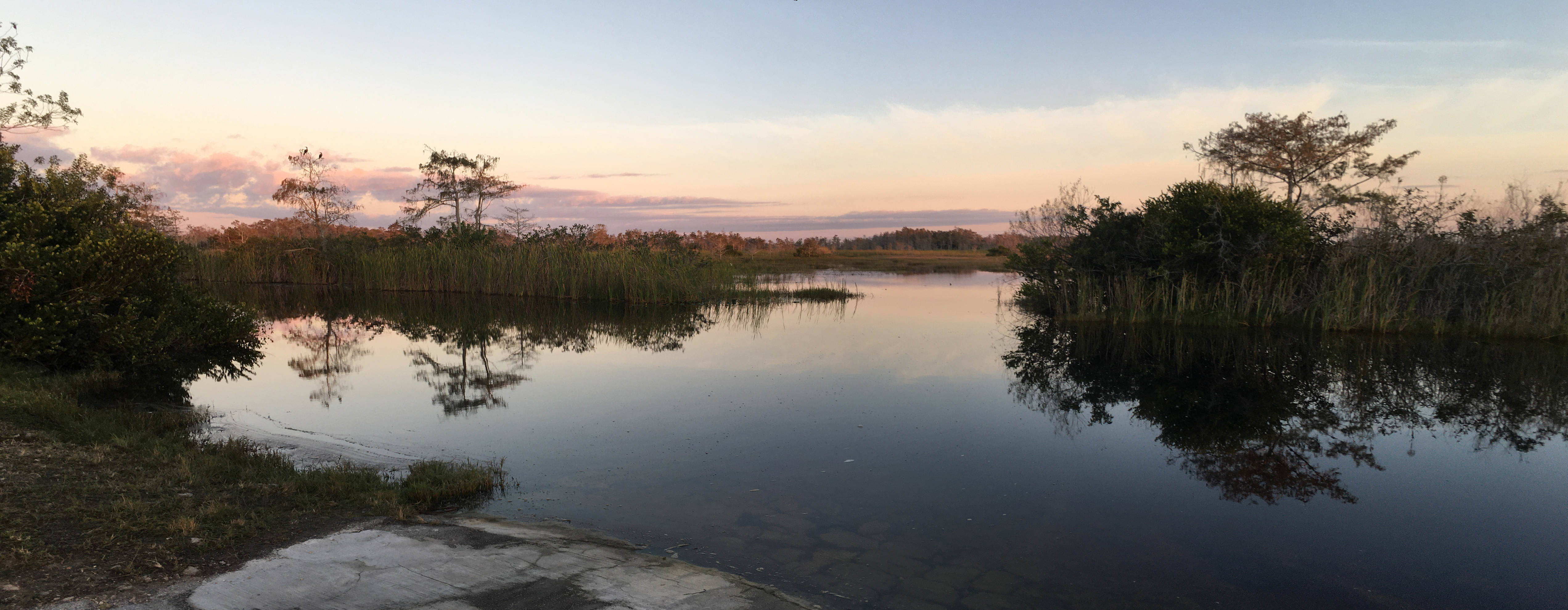 Looking north into Water Conservation Area 3A from the Tamiami Trail at dawn in Miami-Dade County, Florida